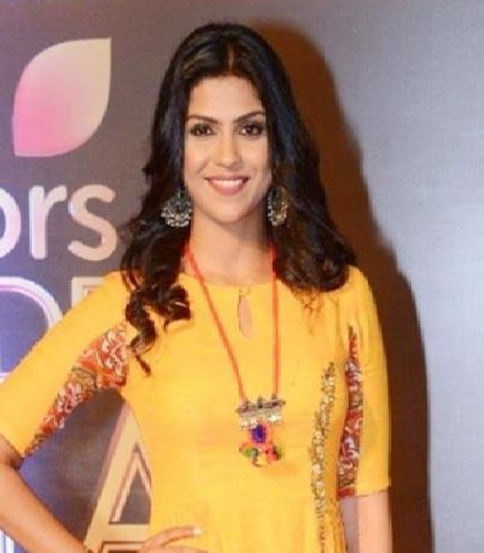 swarda thigale at Savitri Devi college and Hospital Launch Promo